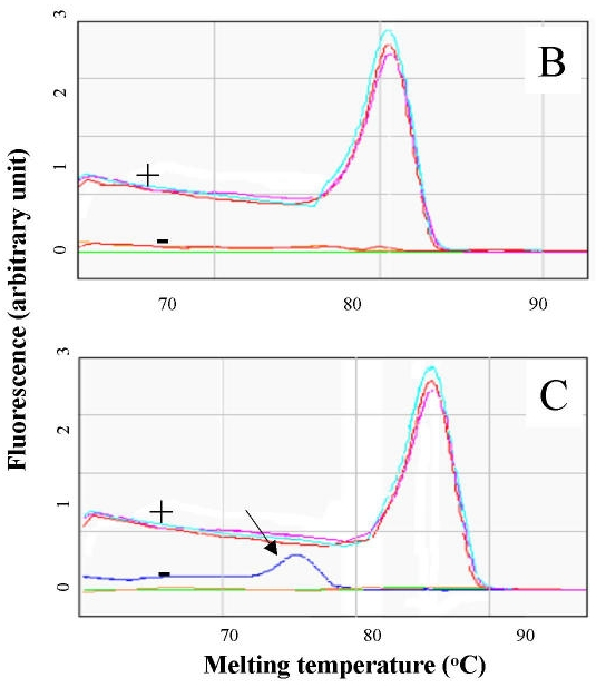 Real-time PCR based on SYBR-Green I fluorescence: An alternative to the TaqMan assay for a relative quantification of gene rearrangements, gene amplifications and micro gene deletions. url